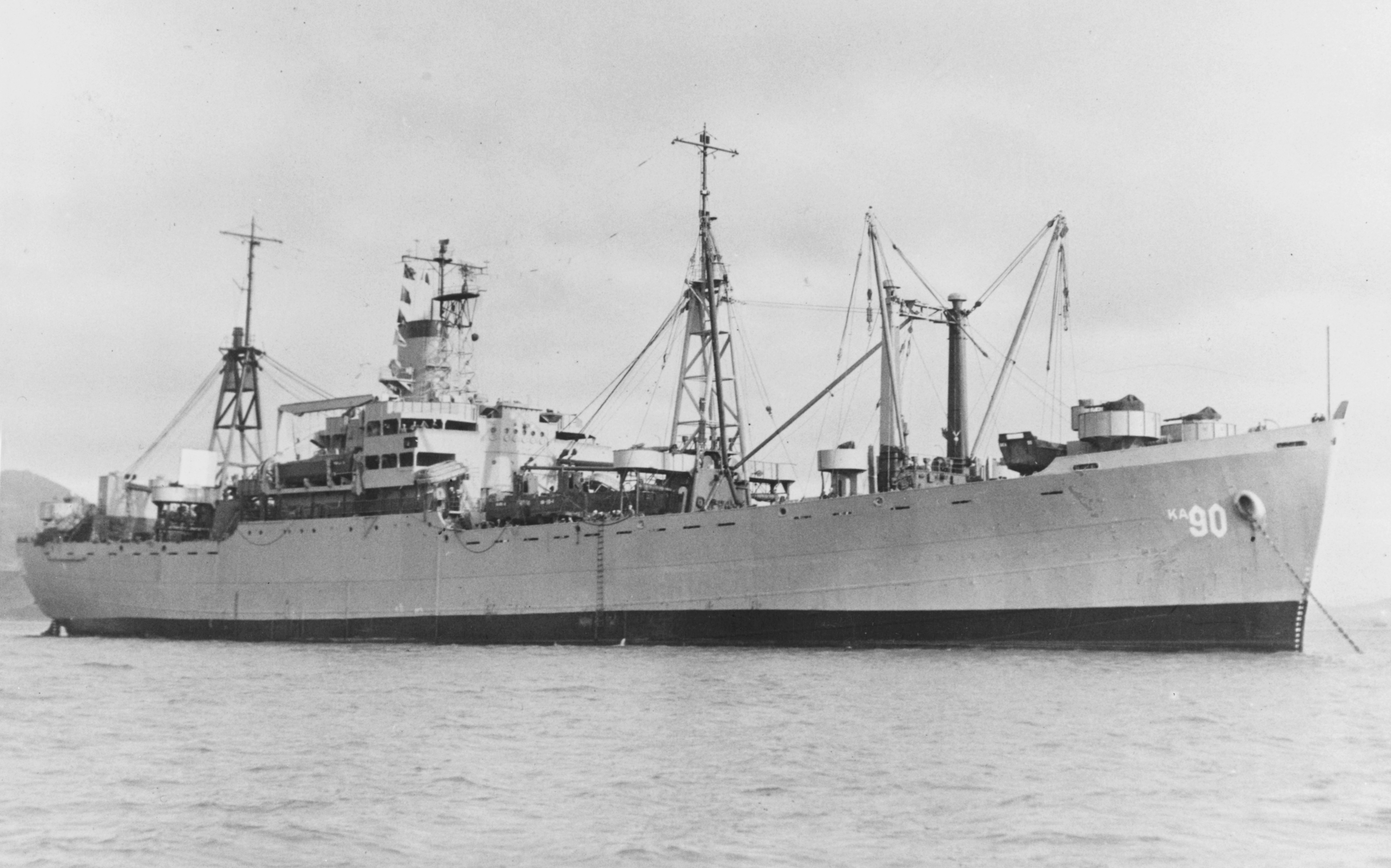 The U.S. Navy attack cargo ship USS Whiteside (AKA-90) anchored in San Francisco Bay, California (USA), circa the late 1940s. Note the odd style hull numbers painted on her bow.